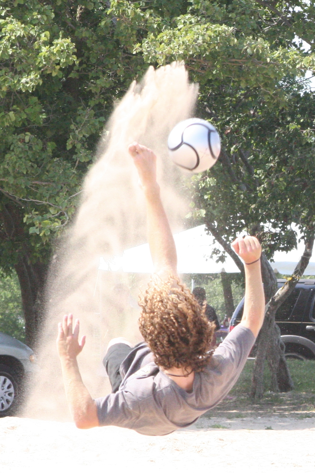 Bicycle Kick @ 2010, Rainbow Haven Beach, NS, Canada